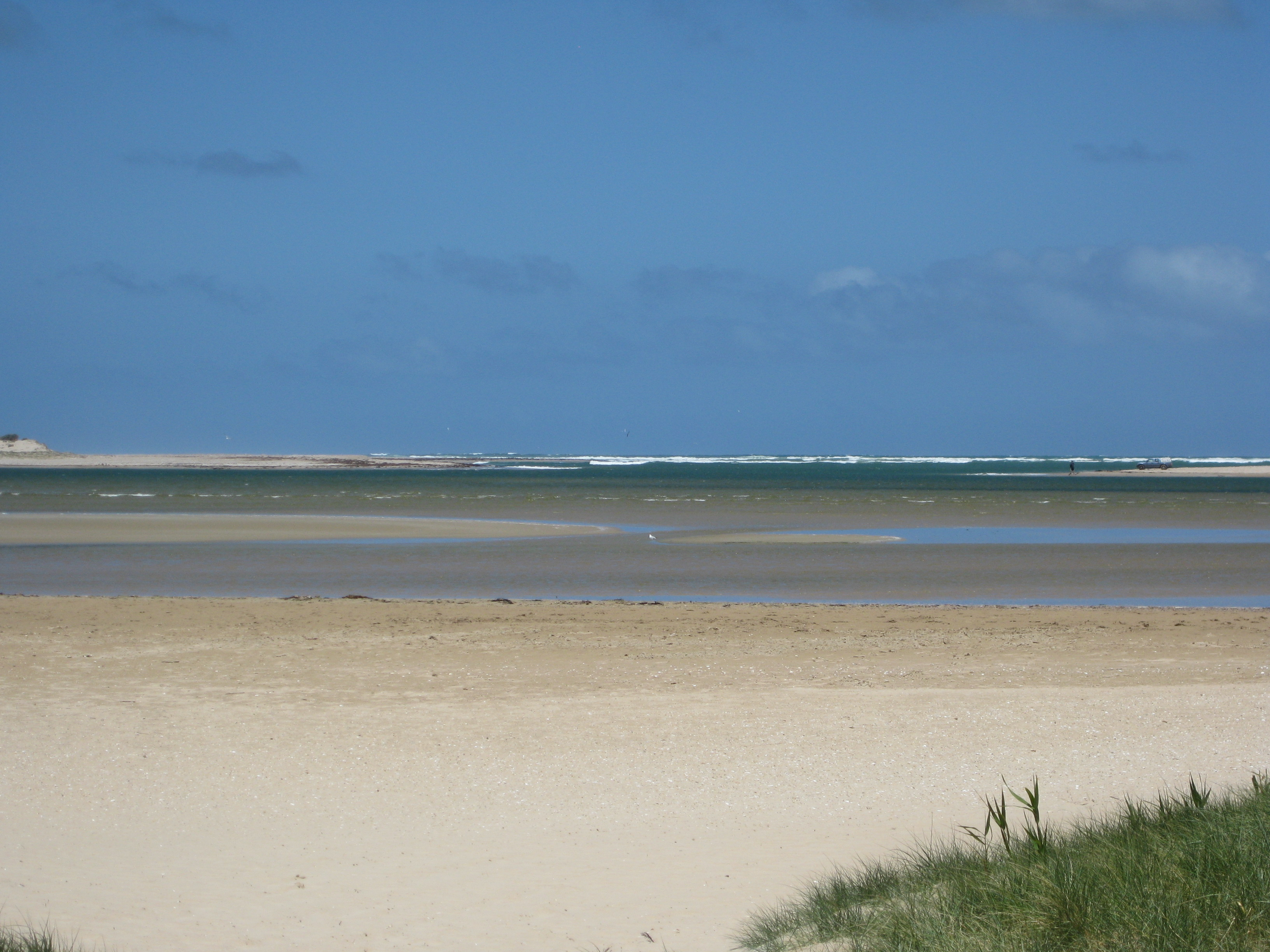 Mouth of Murray River photographed from Hindmarsh Island